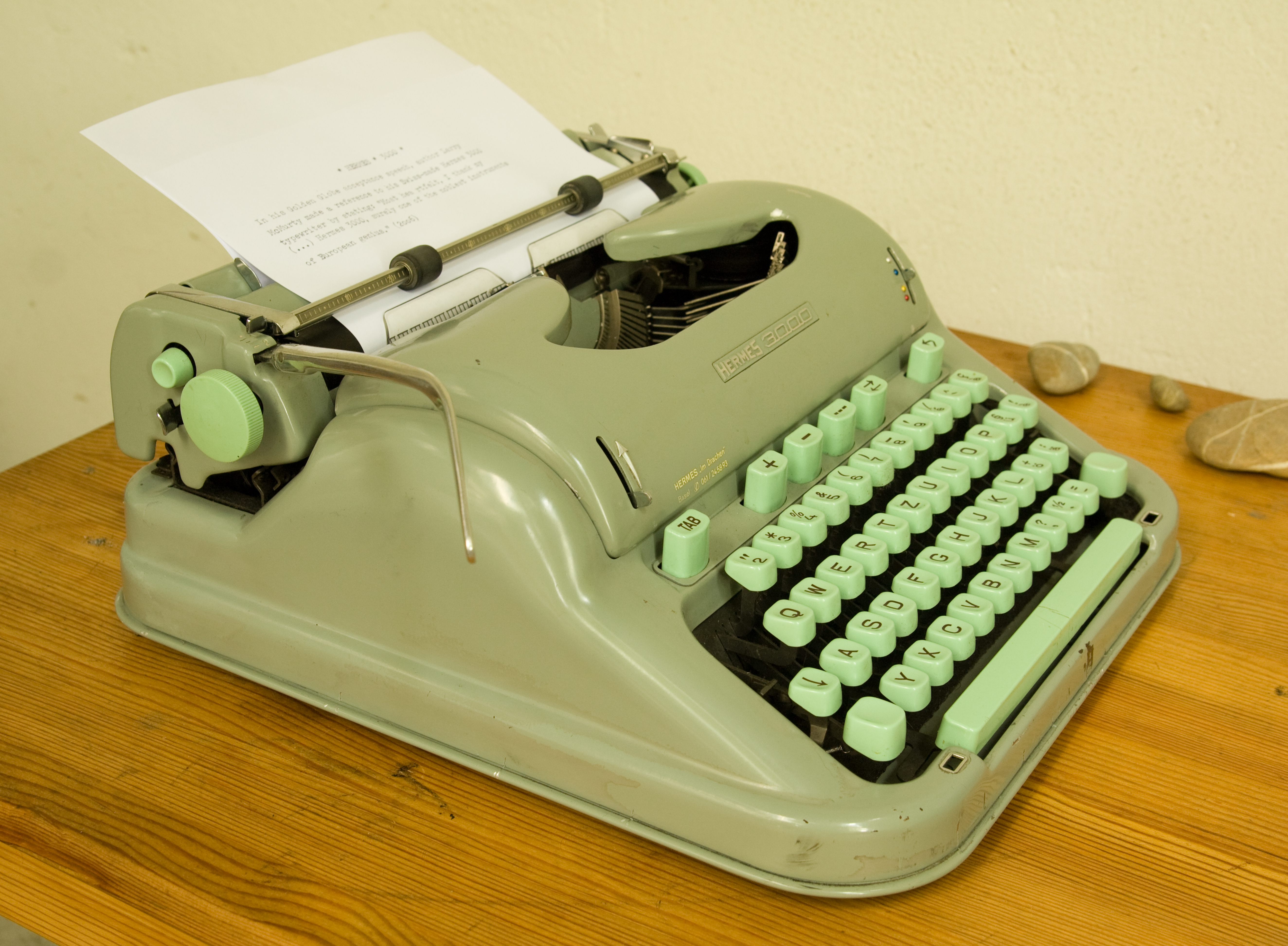 Hermes 3000 portable typewriter (SN 3109005)